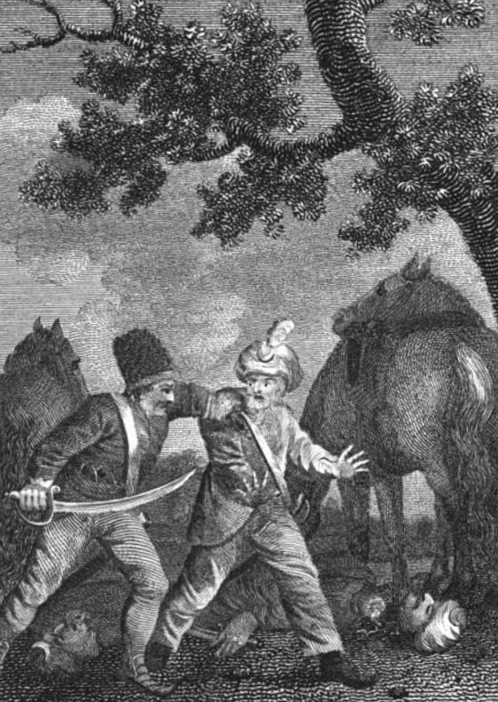 Stanislav "Stanko" Sočivica ("Socivizca"), a hajduk, killing a Turk.